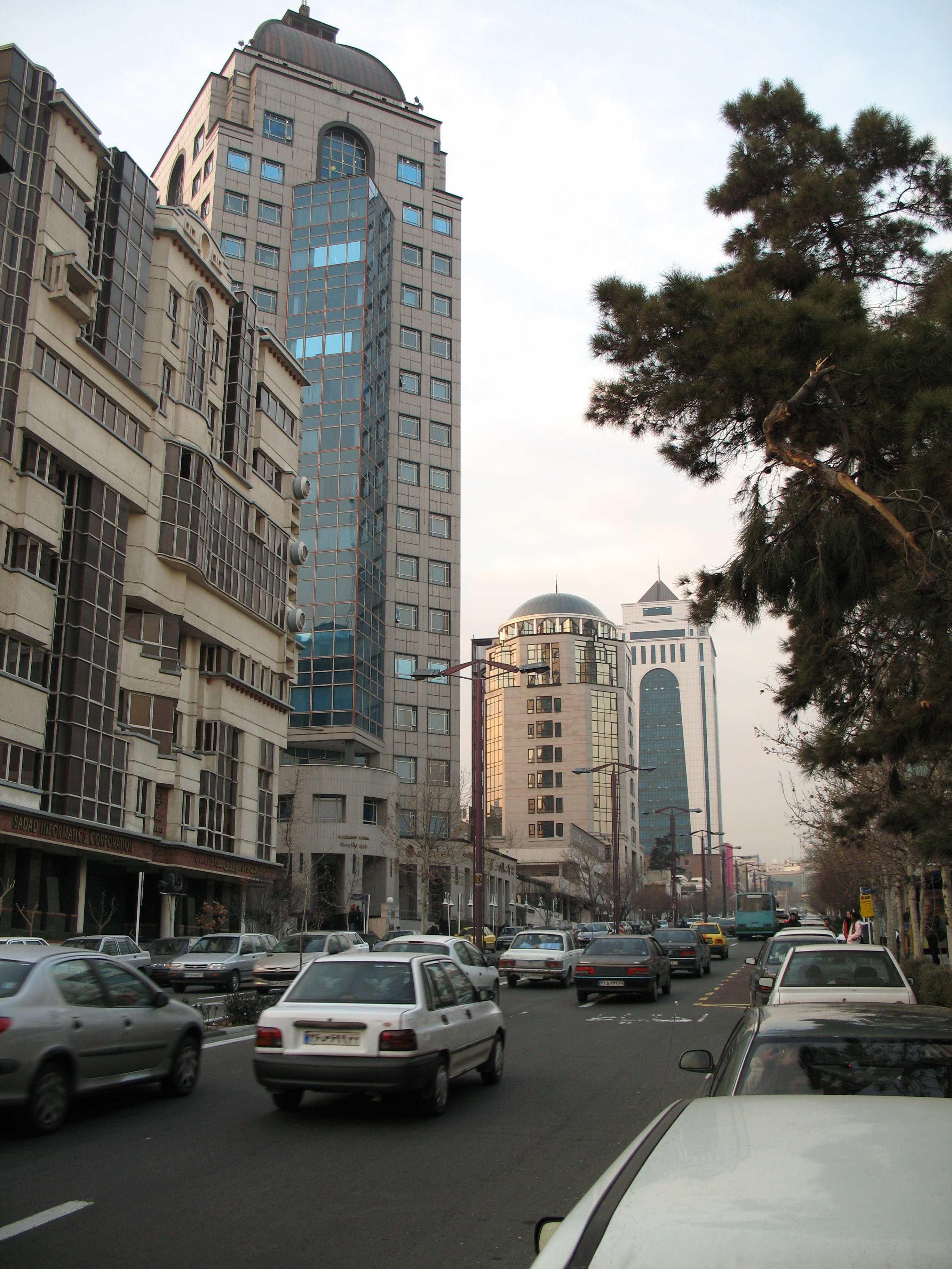 Skyscrapers in Central Tehran